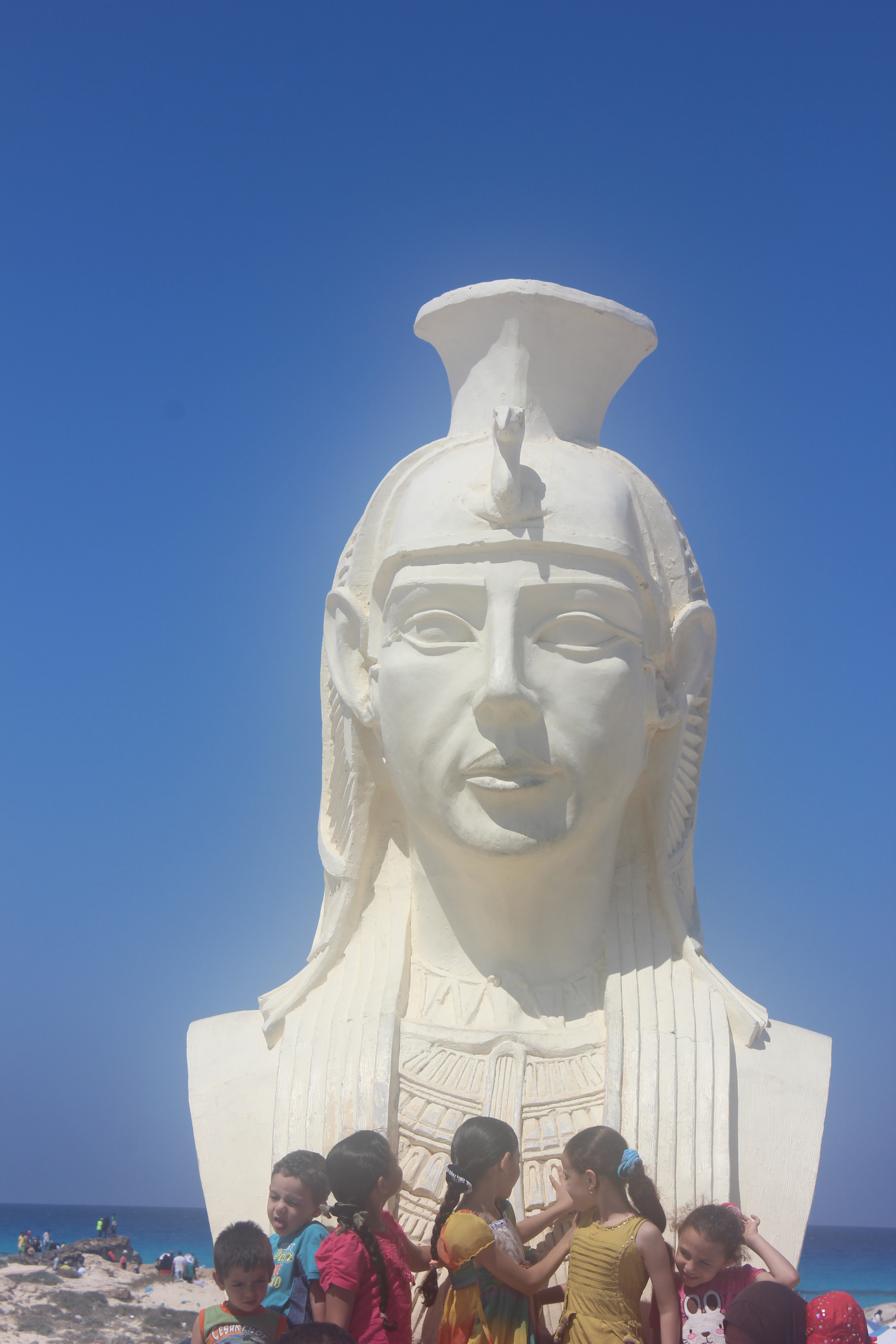 Cleopatra bath and beach, beach west of Marsa Matruh, Egypt.